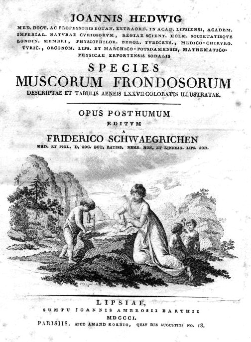 Title page of "Species Muscorum Frondosorum"